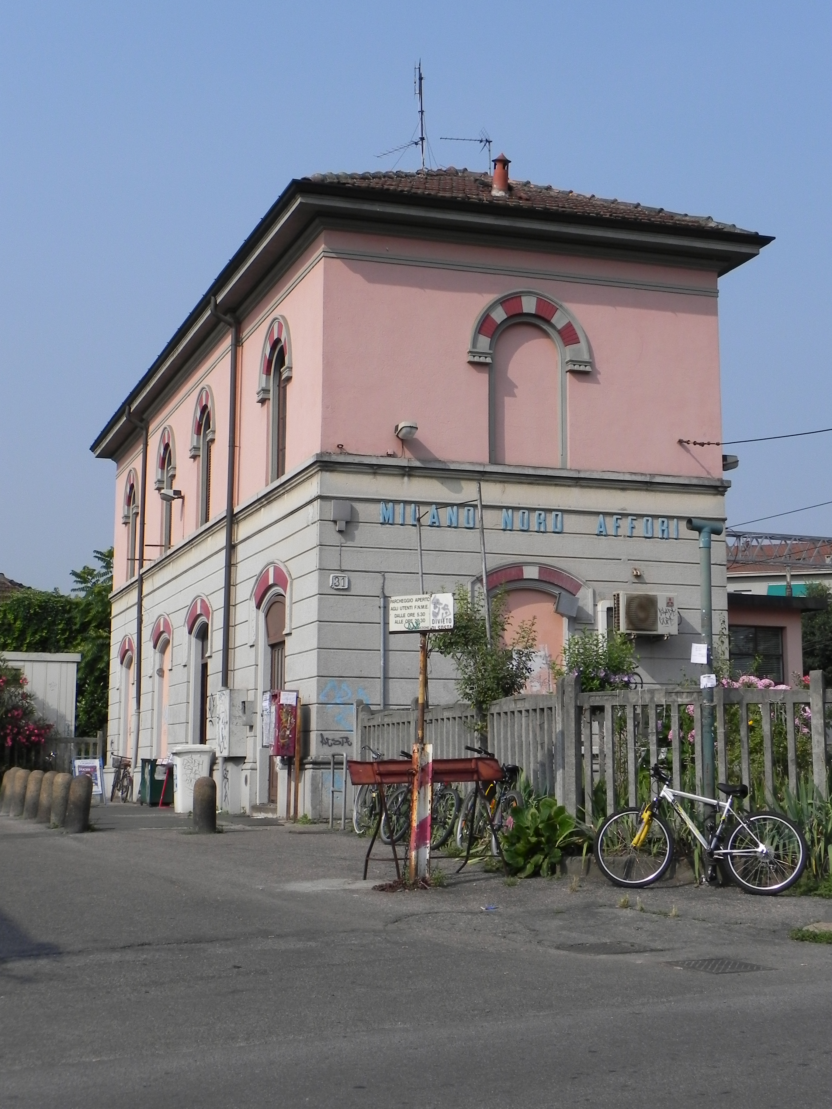 Stazione di Milano Affori FNM